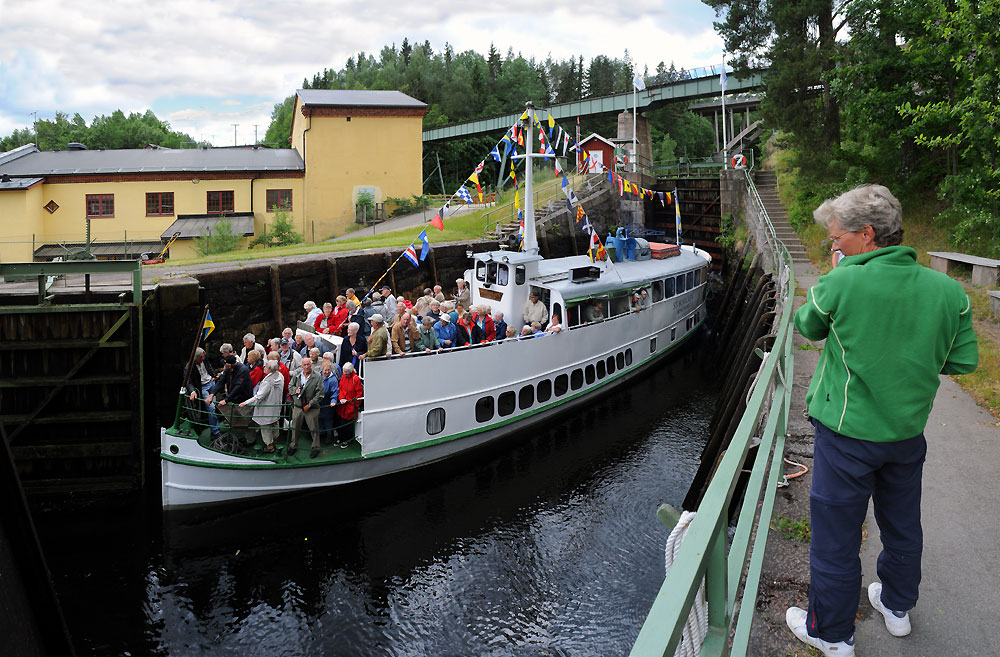 sluice, floodgate, Håverud Sweden. Steam ship, narrow boat, canal.